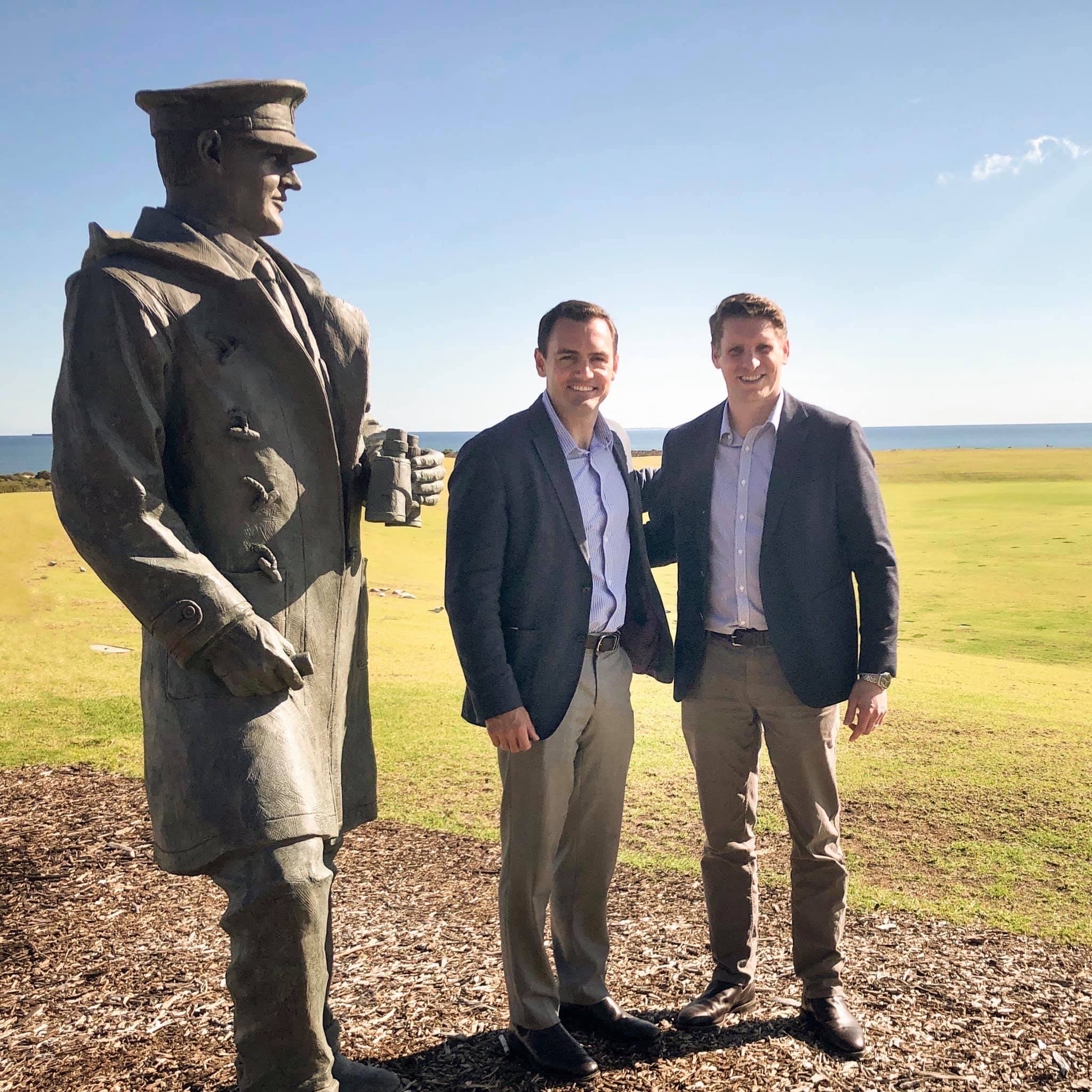 Andrew Hastie MP on right, Mike Gallagher centre, standing with a statue of Sir David Stirling at Campbell Barracks in Western Australia on 10 August 2019